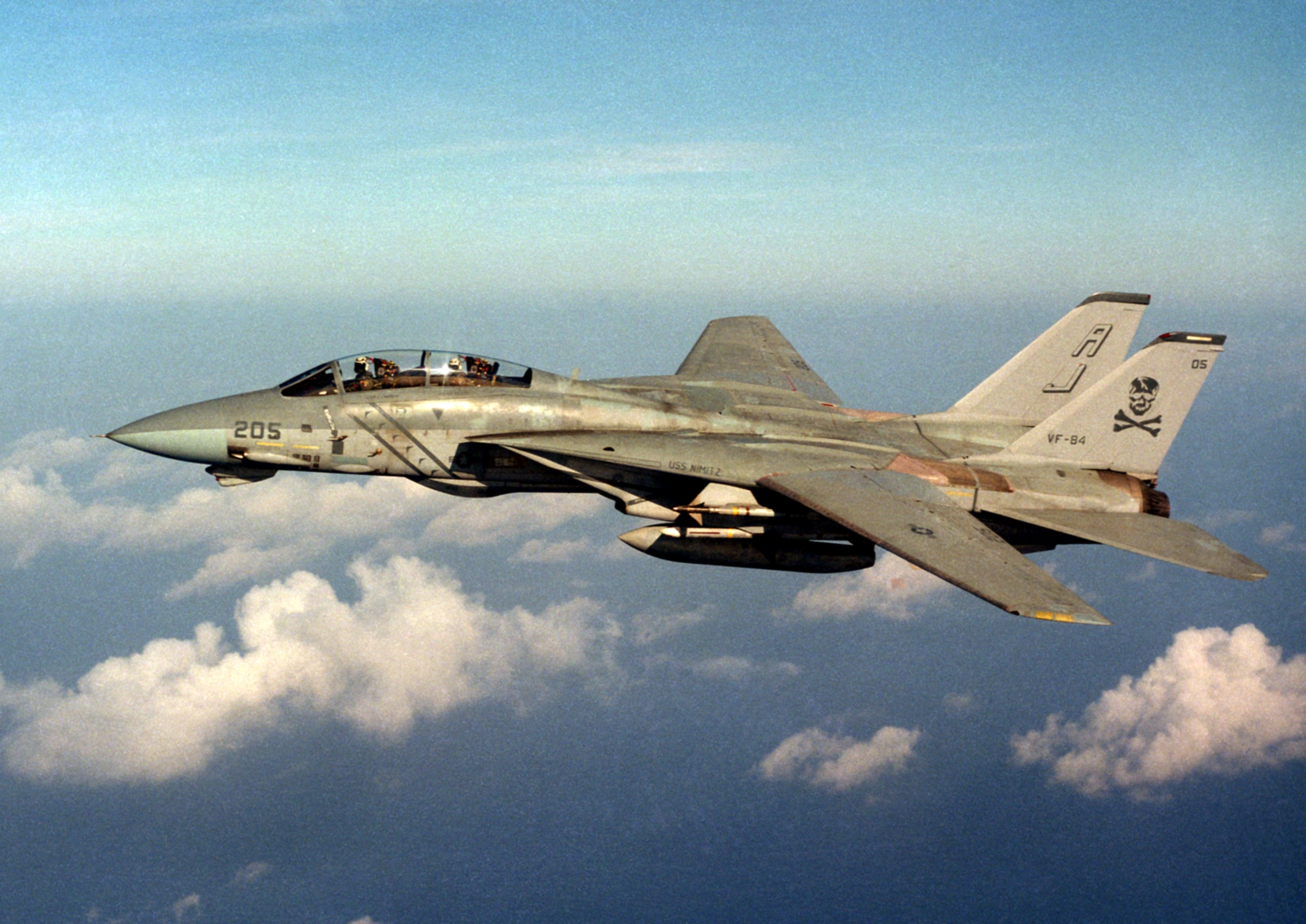 A U.S. Navy Grumman F-14A-95-GR Tomcat of Fighter Squadron VF-84 "Jolly Rogers" (BuNo 160411) in flight. VF-84 was assigned to Carrier Air Wing 8 (CVW-8) aboard the aircraft carrier USS Nimitz (CVN-68) for a deployment to the North Atlantic from 15 August to 16 October 1986.